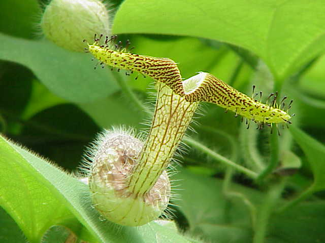 Species: Aristolochia eriantha Family: Aristolochiaceae Image No. 2